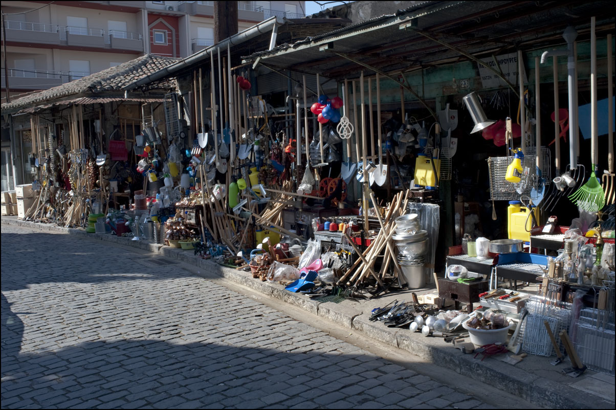 Komotini New York style, Greece. The market in the old city.